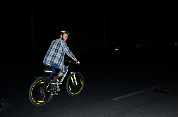 One of the organizers of the Night Biking, cofounder of the project (Eventot) - Arshak Ulubabyan at the event "Night Biking-7."